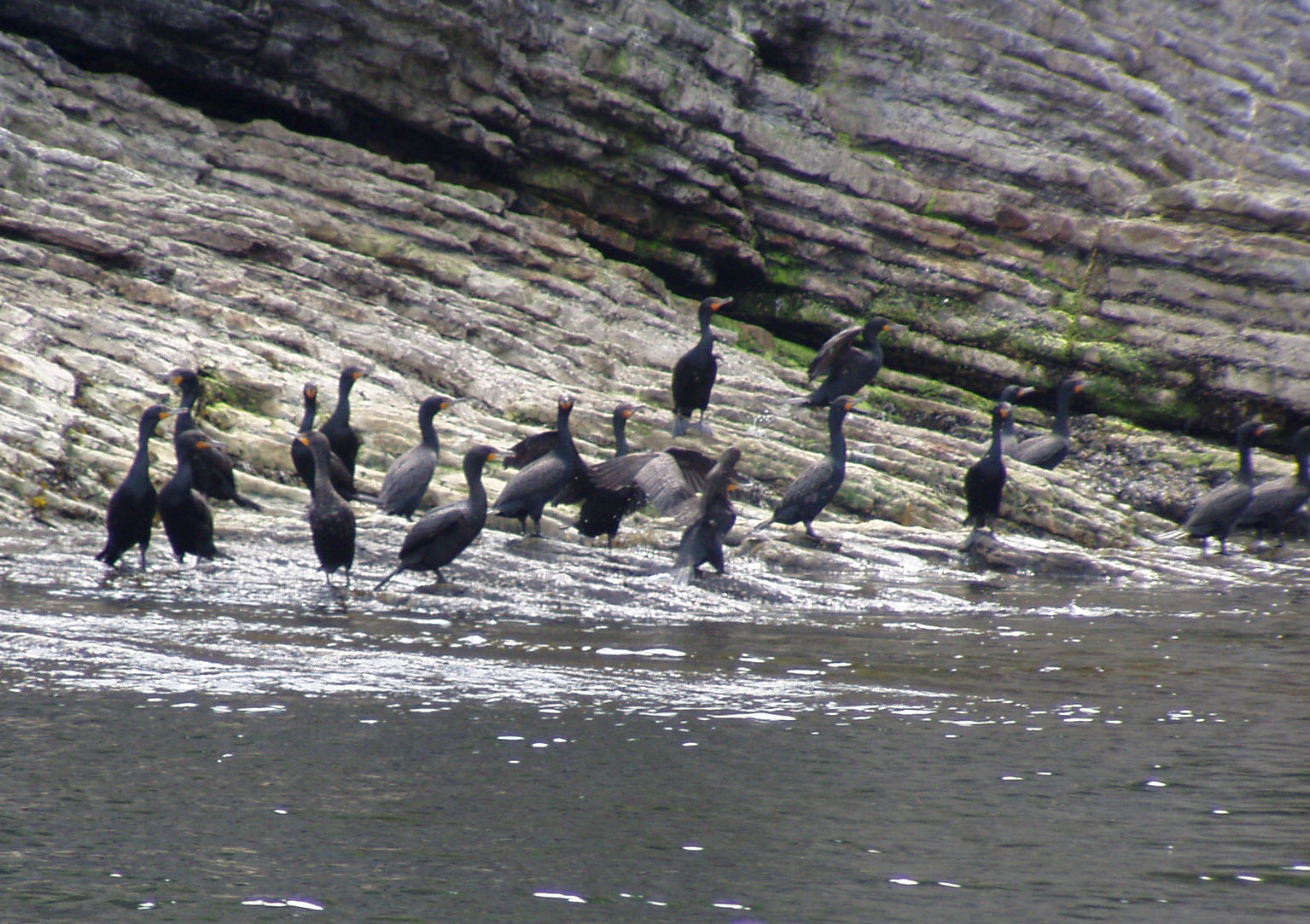 Double-crested cormorants (Phalacrocorax auritus) near Cap Bon-Ami at the Forillon National Park in Quebec, Canada.